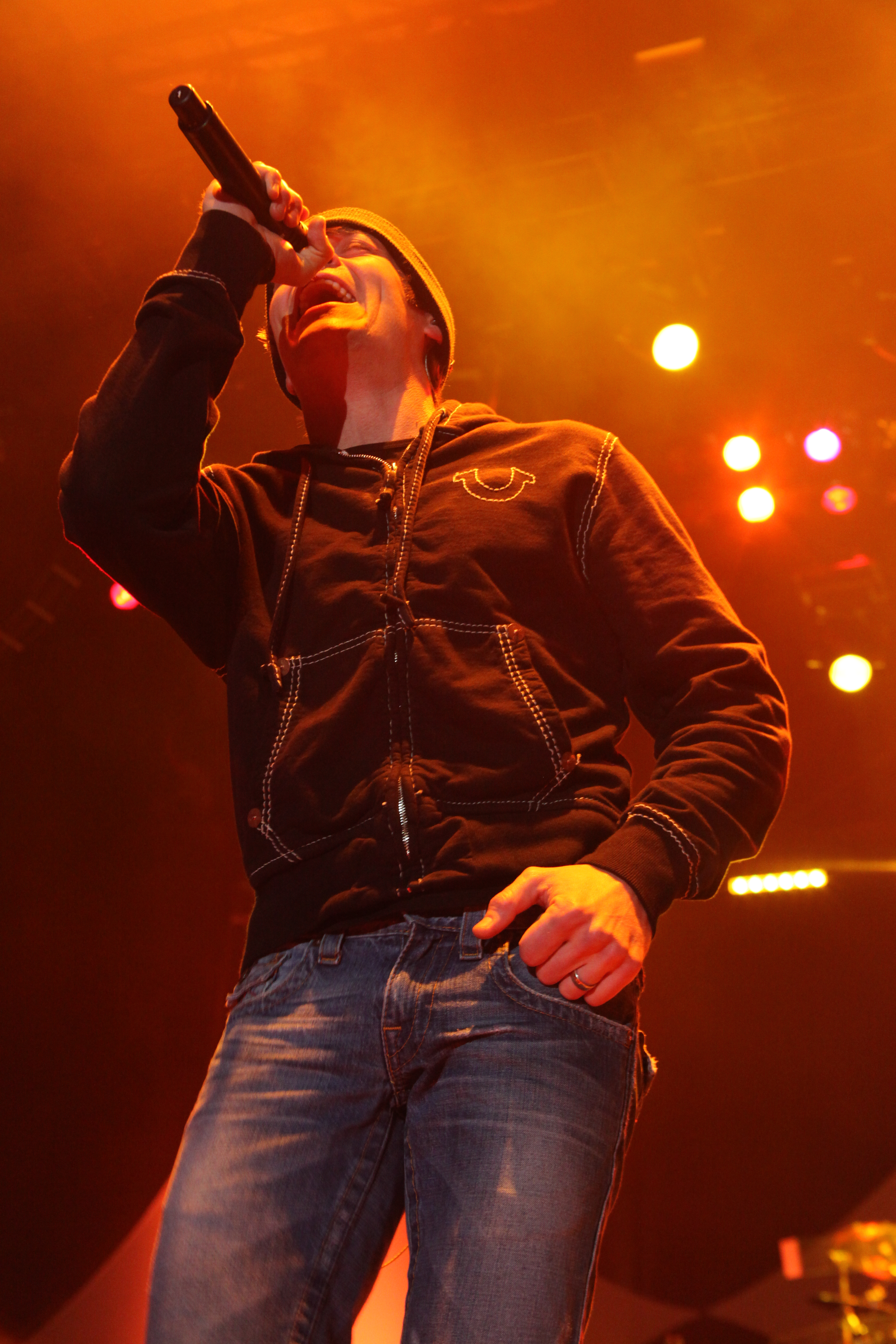 Brad Arnold of 3 Doors Down sings for a crowd that includes participants of Cherry Point’s Single Marine Program in Raleigh, N.C., Jan. 28. The Single Marine Program will take more trips in the near future to places such as Busch Gardens, Williamsburg, Va., and to see the Charlotte Bobcats professional basketball organization.